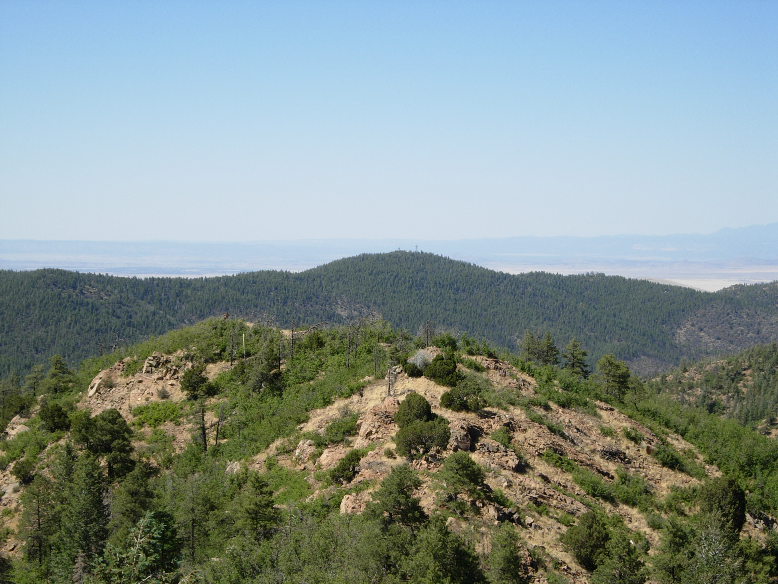 Spruce Mountain, seen from Mount Union, Bradshaw Mountains, Arizona.